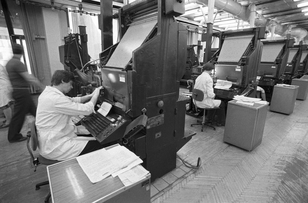 “Printing house of Sovetsky Sport newspaper”. The printing house of the Sovetsky Sport newspaper.